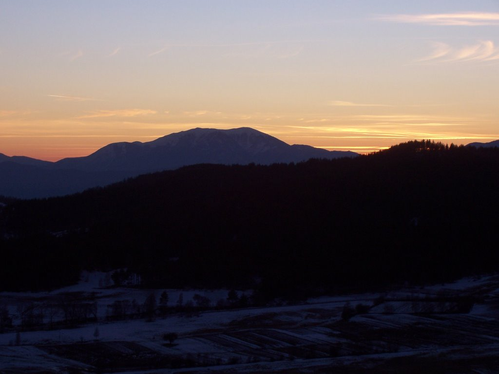 Slavyanka Mountain as seen from Rhodope Mountain.